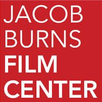 Red background, white text reading Jacob Burns Film Center